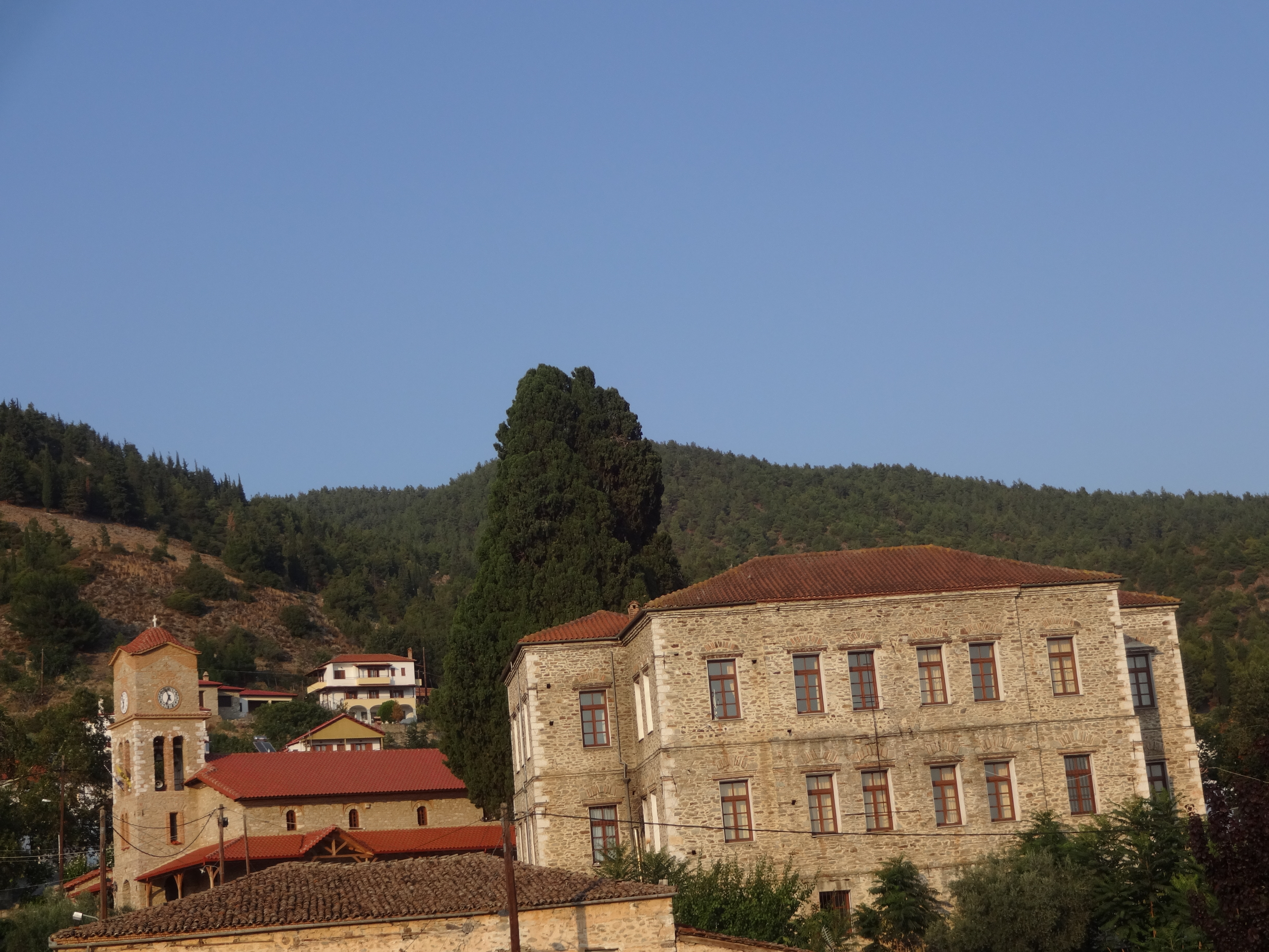 Tsaritsani, Greece. Gymnasium and church of Madonna.